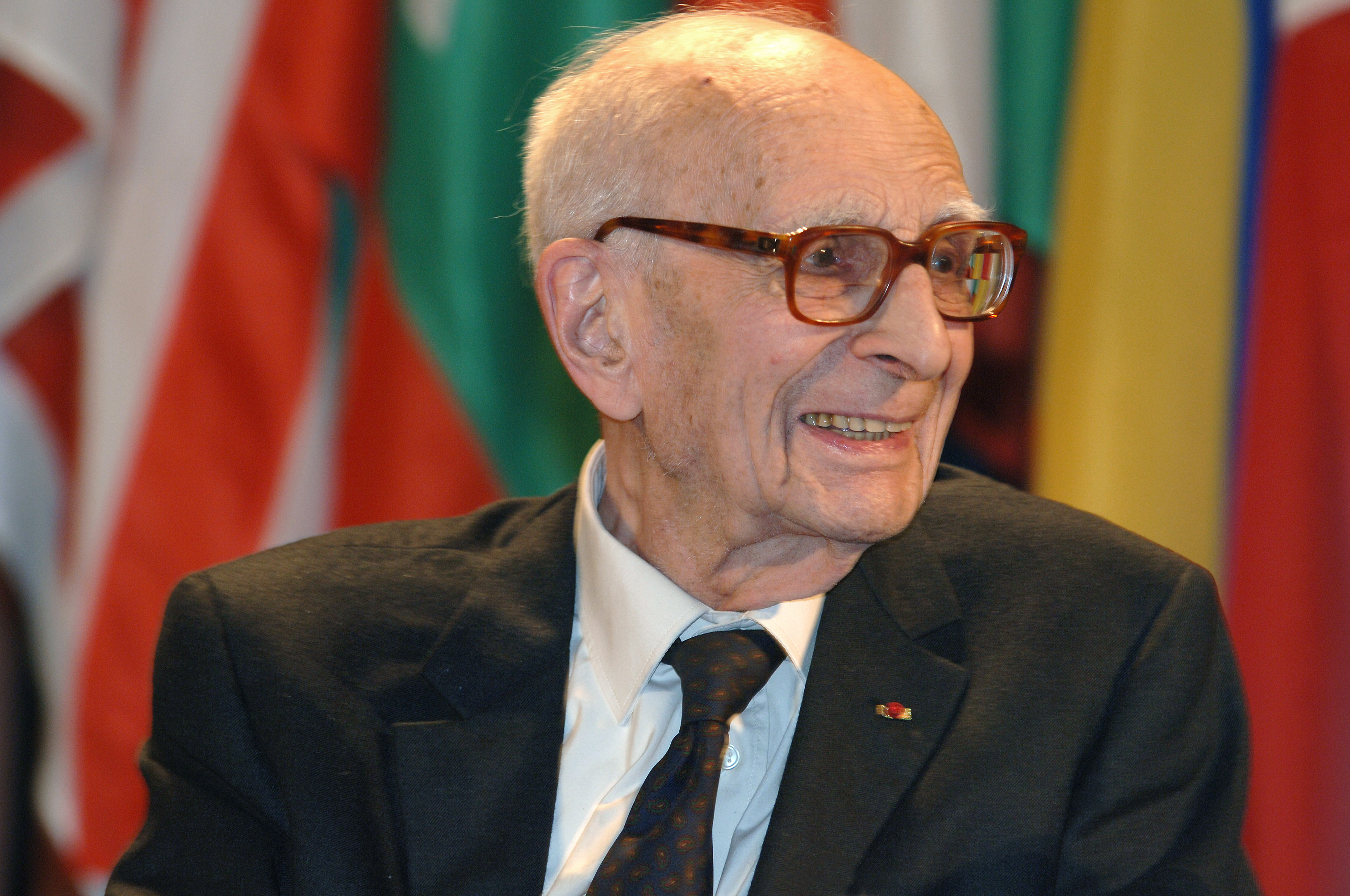 Portrait of Claude Lévi-Strauss taken in 2005